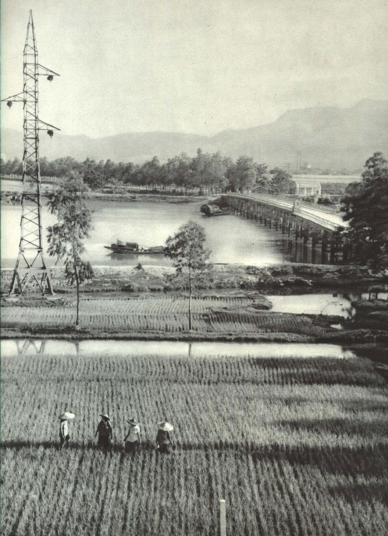 Power grid in Kaiping County, Province of Guandong, China, taken in 1963.